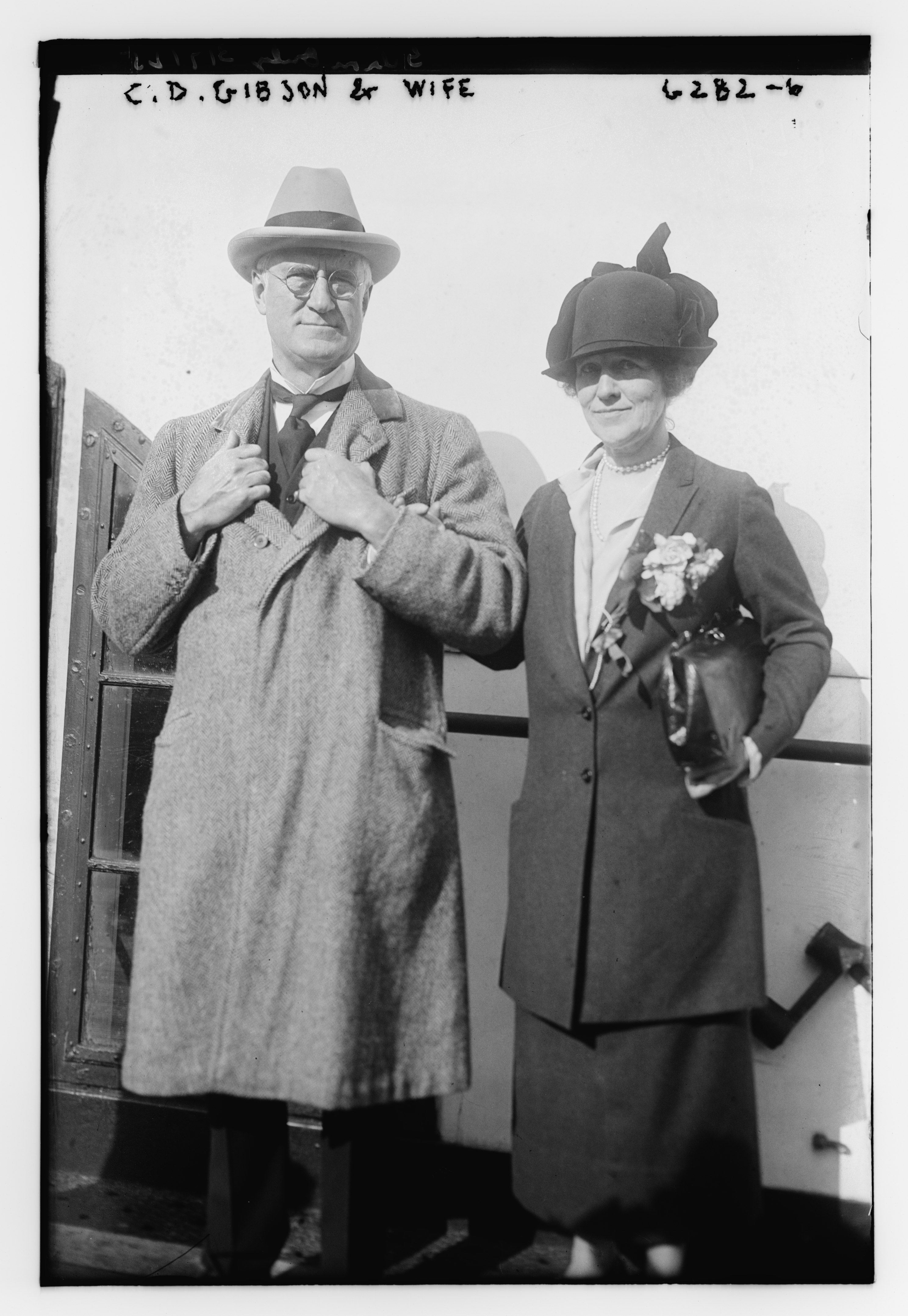 Title: C.D. Gibson & wife Abstract/medium: 1 negative : glass ; 5 x 7 in. or smaller.